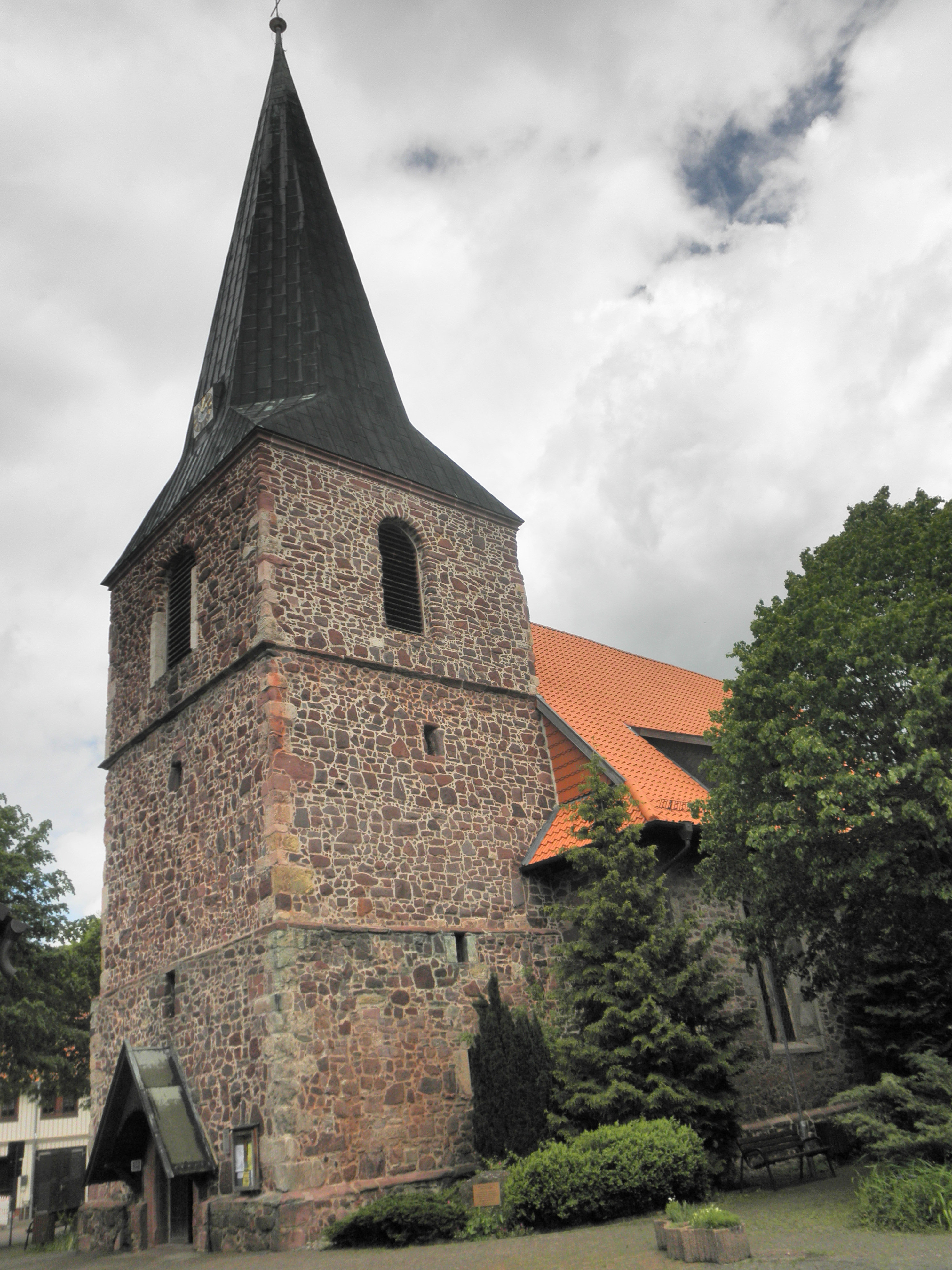 Church in Neustadt/Harz in Thuringia